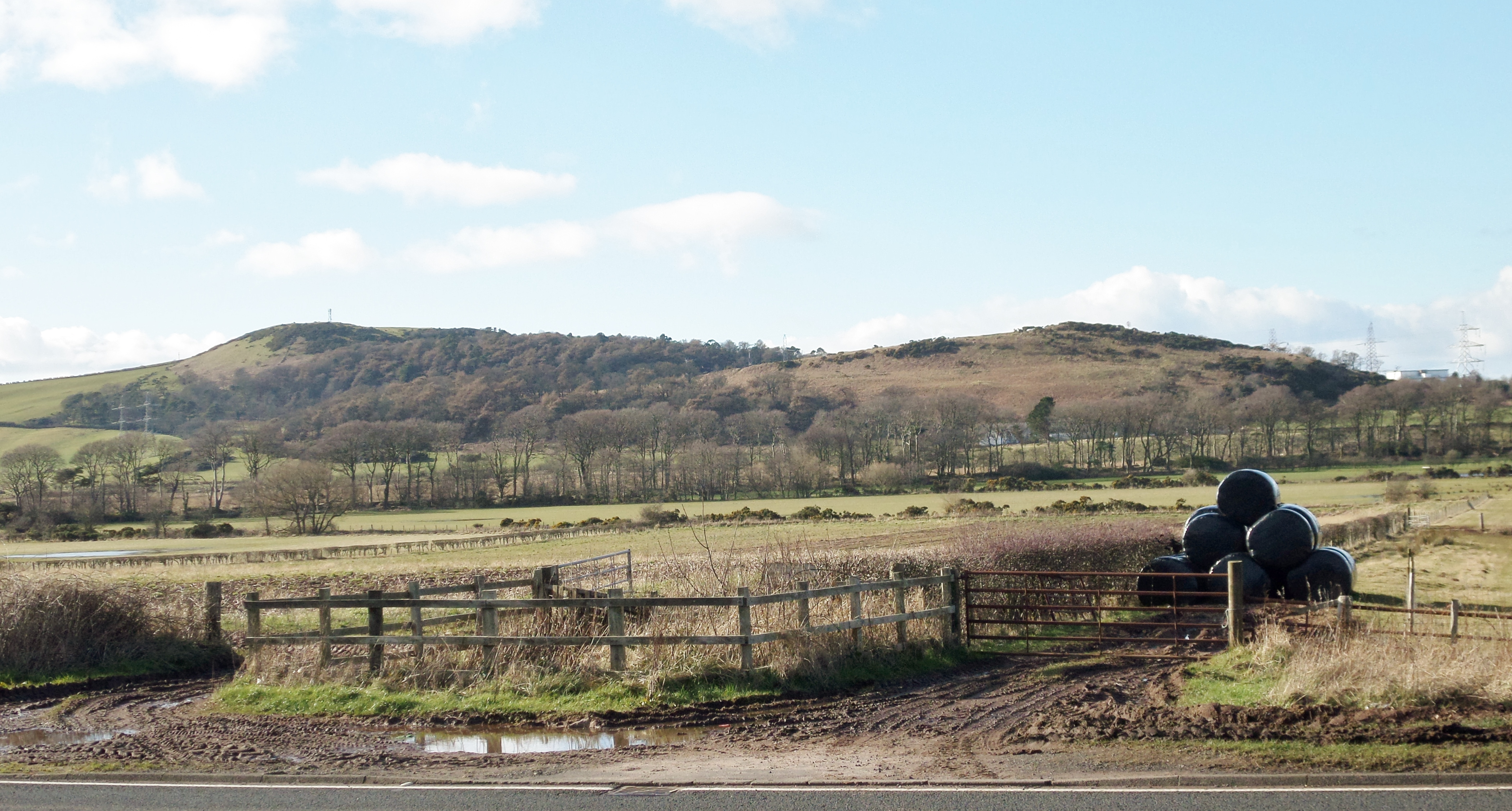 Goldenberry Hill near Hunterston and West Kilbride, North Ayrshire, Scotland.